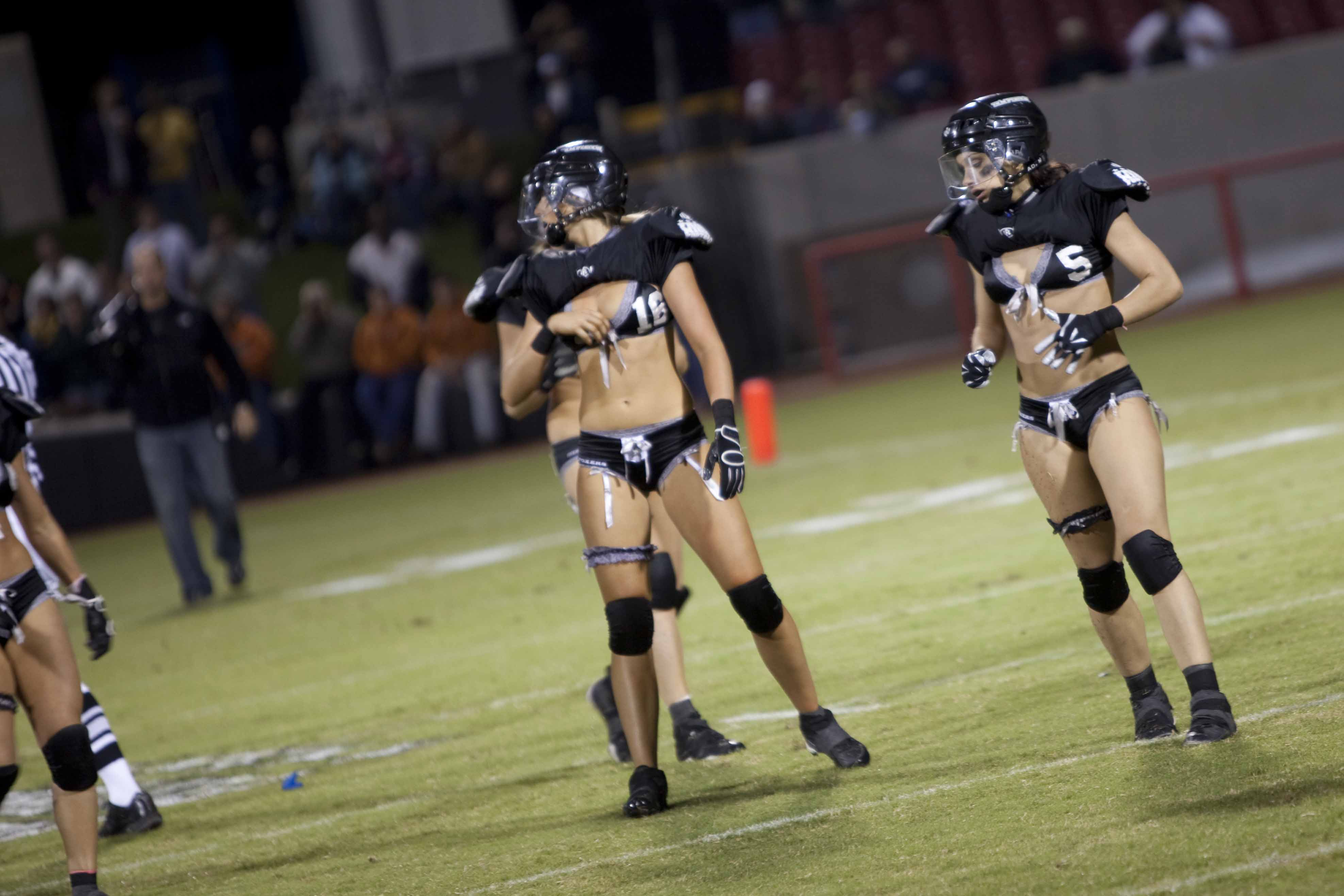 This photo was taken at the Lingerie Football League's game on Friday October 23, 2009 in Grand Prairie, Texas between the Dallas Desire and the San Diego Seduction.